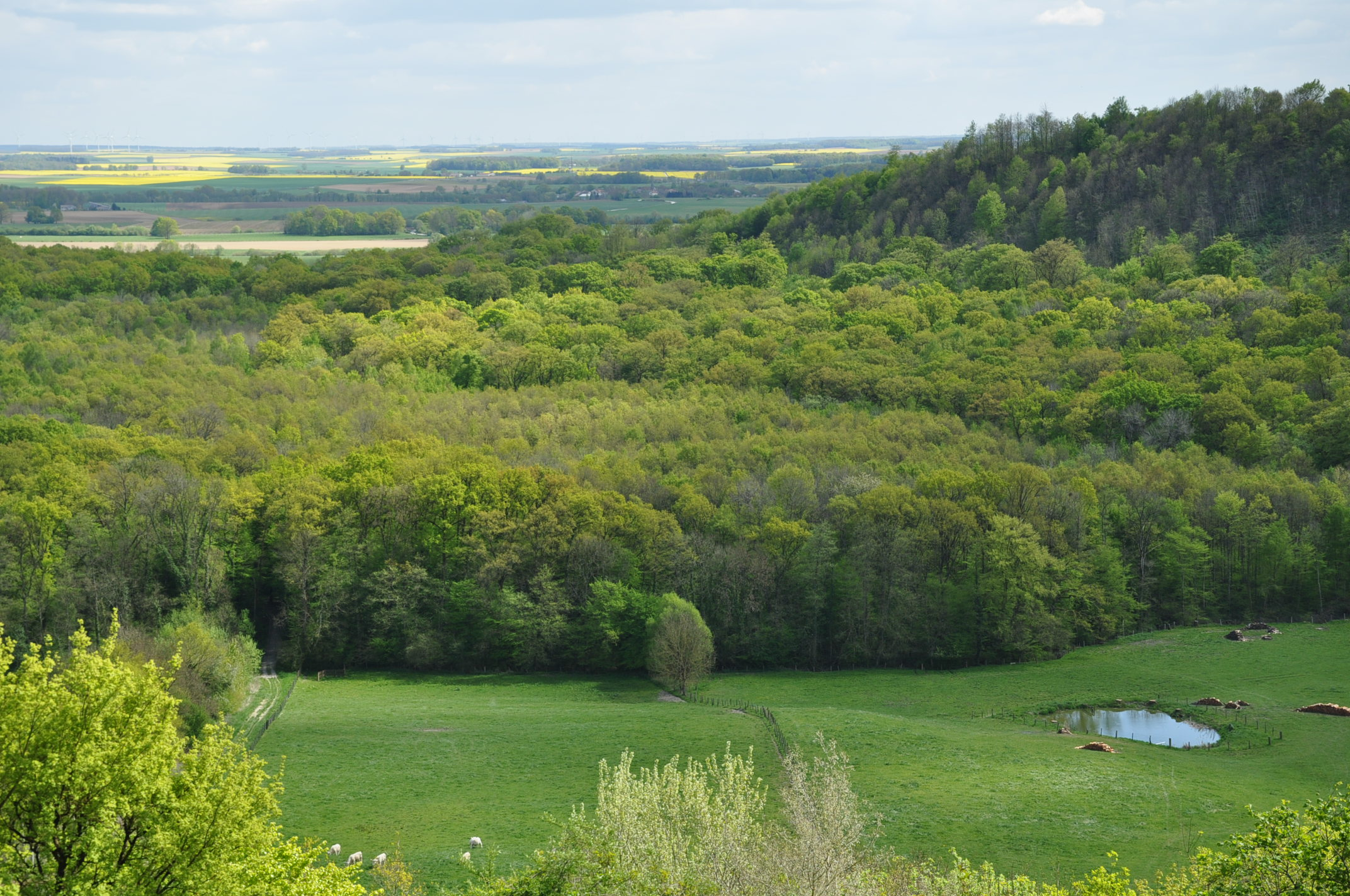 View over the Argonne region from Beaulieu-en-Argonne (canton Seuil-d'Argonne, Meuse department, Lorraine region, France).